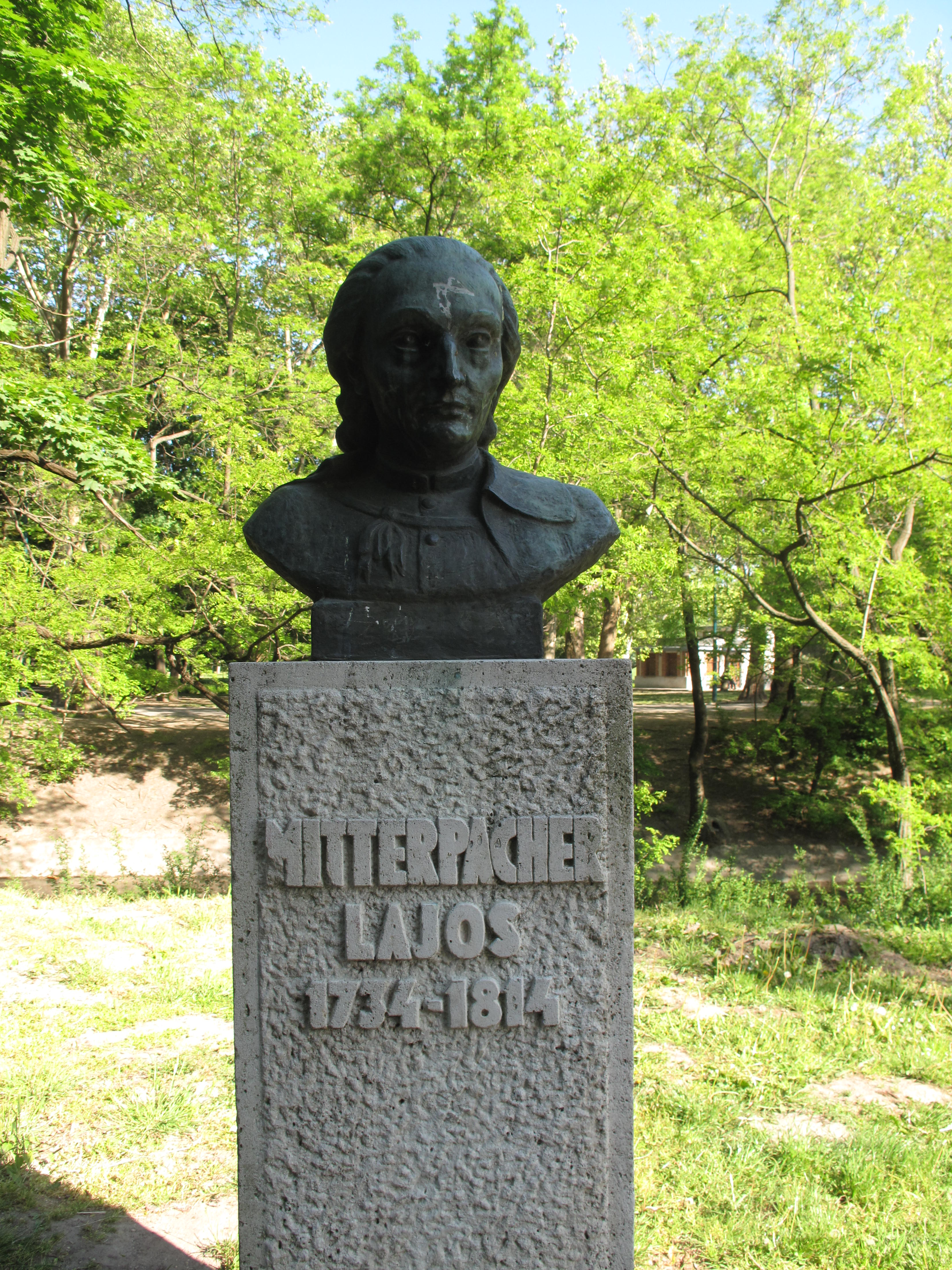 Lajos Mitterpacher bust in Budapest District XIV, City Park. Sculptor: Ferenc Takács. Erected in 1962.